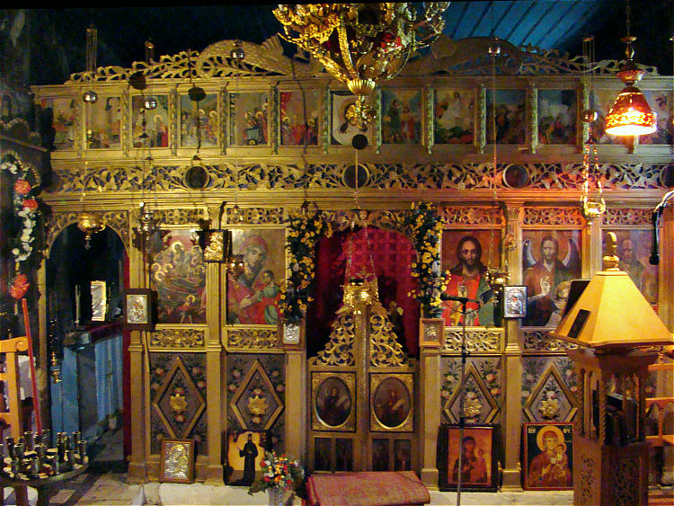 Iconostasis of the temple of Dormition of Theotokos; Kastri, Evrymenes. The whole creation is PD by age.